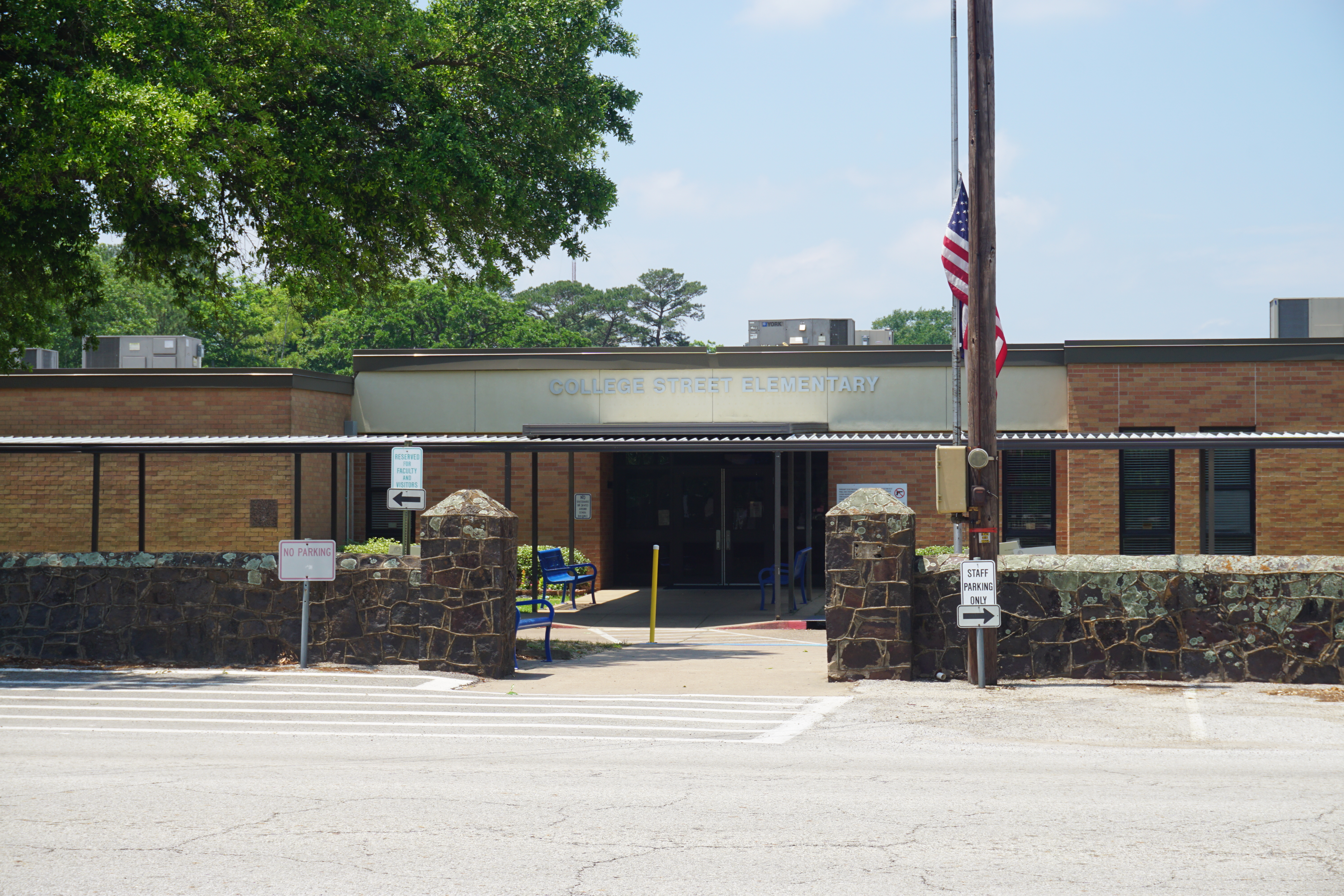 College Street Elementary School in Lindale, Texas (United States).